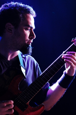 Shane @ Omotesando FAB, Tokyo, Japan. Playing his signature model guitar by Nil Guitars. copyright 2007 Satoshi Asai / Shane Gibson